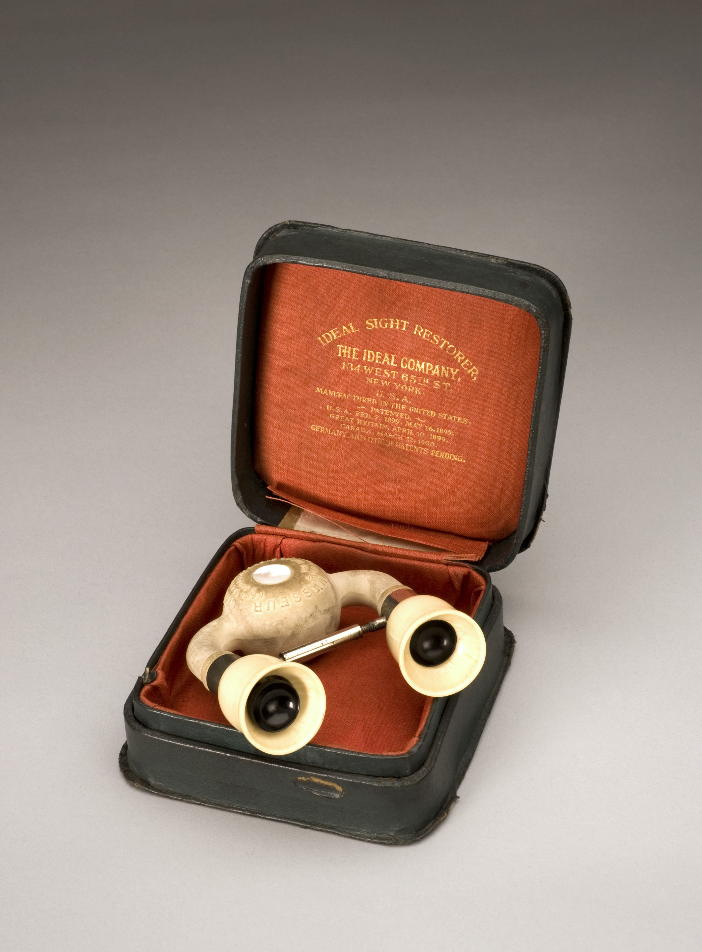 Made by the Ideal Company, this unusual device, an eye massager, promised to cure imperfect vision and eye diseases such as cataracts which cause blindness. The rubber cups are placed on closed eyelids and the rubber circle in the middle squeezed. This produced suction every time the circle was pressed, creating a massaging effect. It was invented by Charles A Tyrrell who owned The Ideal Company. Tyrrell was a masseur who qualified as a doctor in 1900. He was condemned by the medical establishment as a quack and a fake for producing products with dubious medical credentials such as the Ideal Sight Restorer. maker: The Ideal Company Place made: New York city, New York state, United States Wellcome Images Keywords: Ophthalmology; eye massager; Cataract